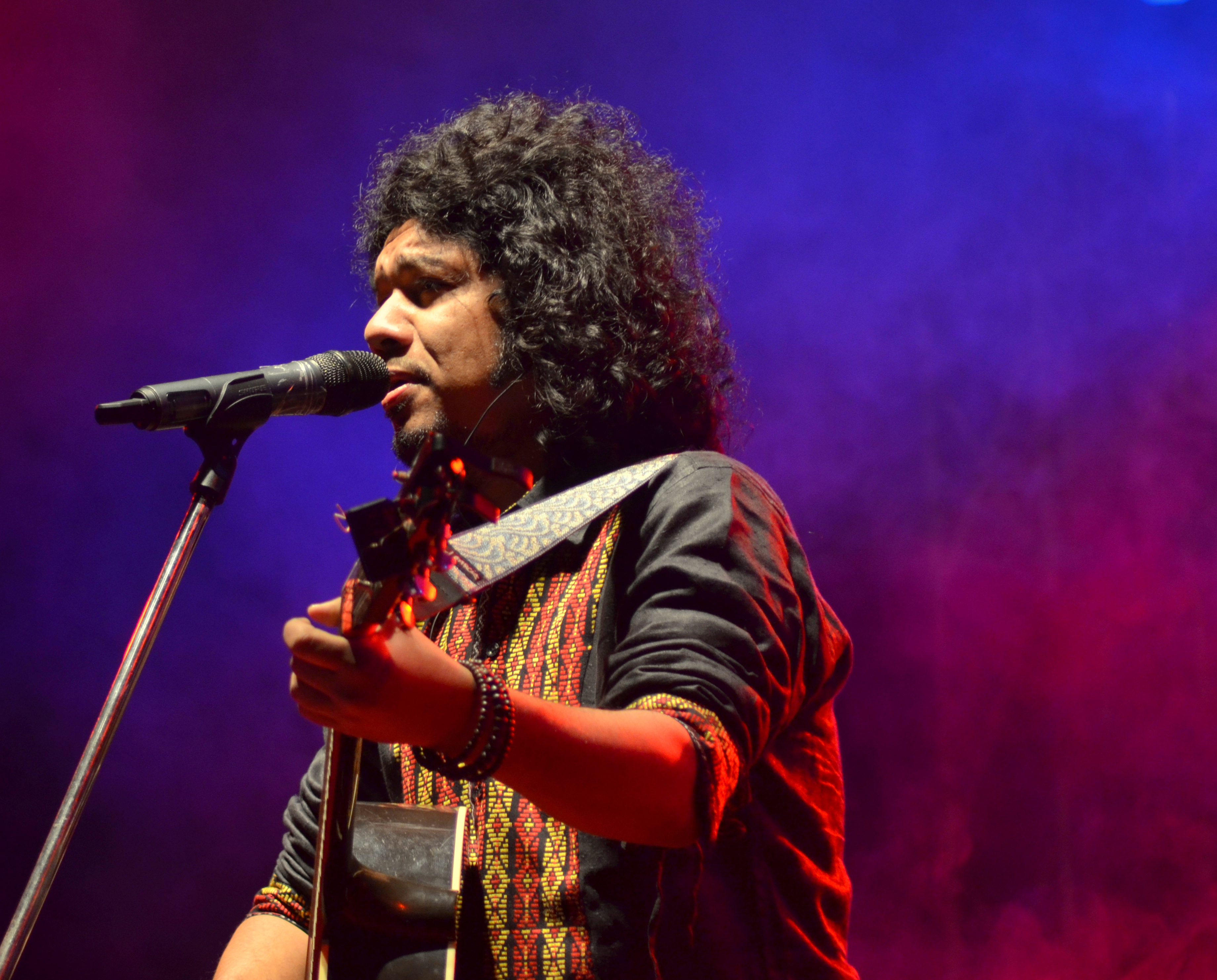 2014 Euphuism Renisscido